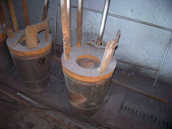 Blast furnaces tuyeres.